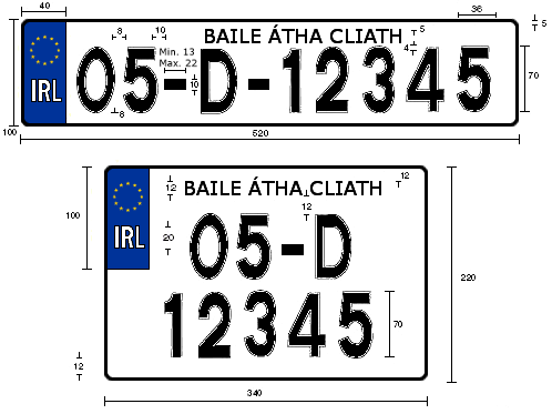 Legal specifications for current Irish registration plates